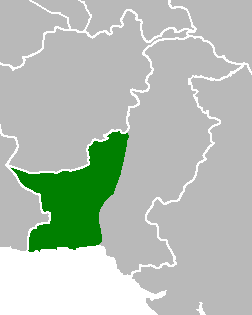 Distribuition of the Balochi Language.